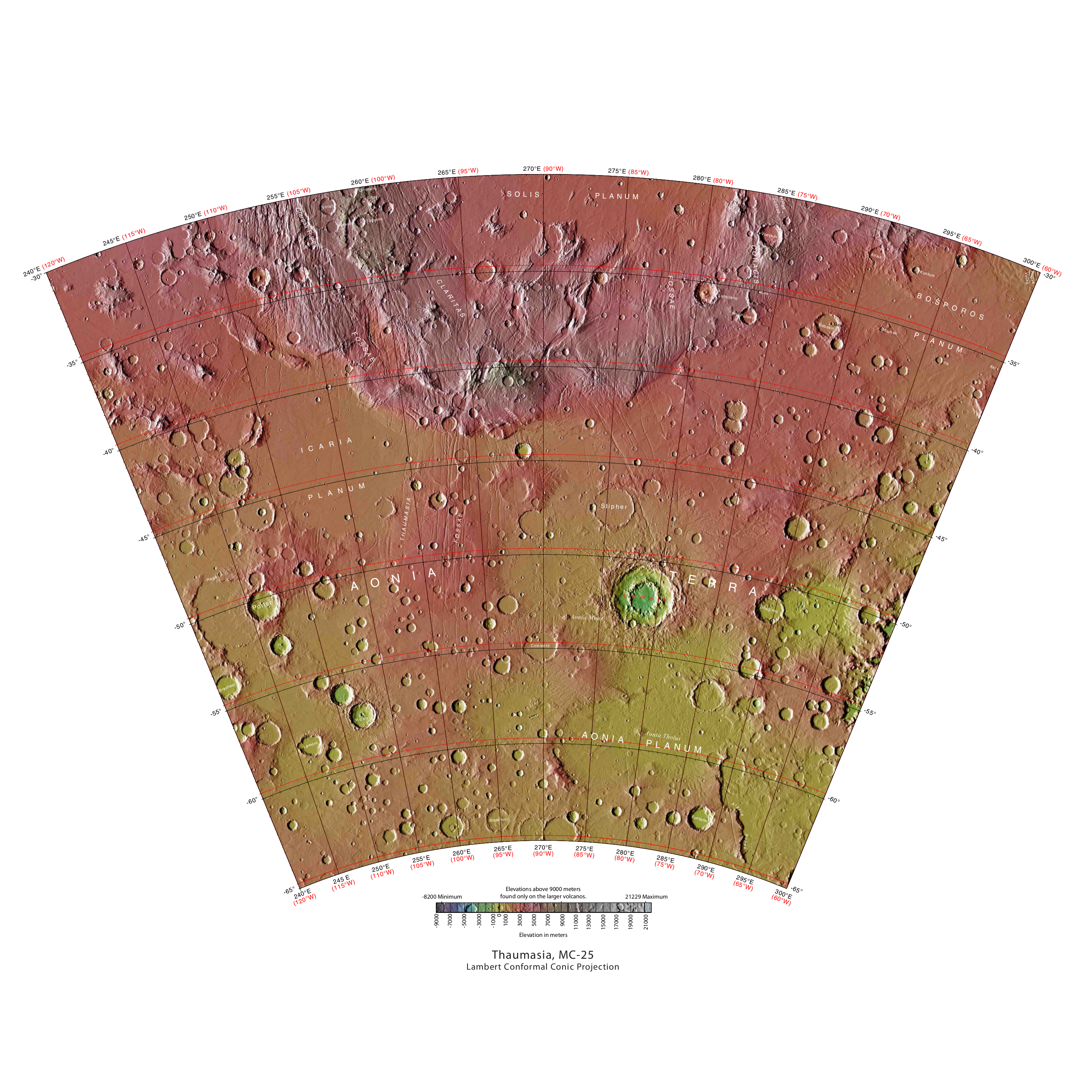 MOLA Topographic Map of Thaumasia Quadrangle (MC-25) on the planet Mars. NOTE: Converted the original PDF file to a PNG File (via GIMP v2.8.4 program) - and uploaded to Wikimedia Commons.